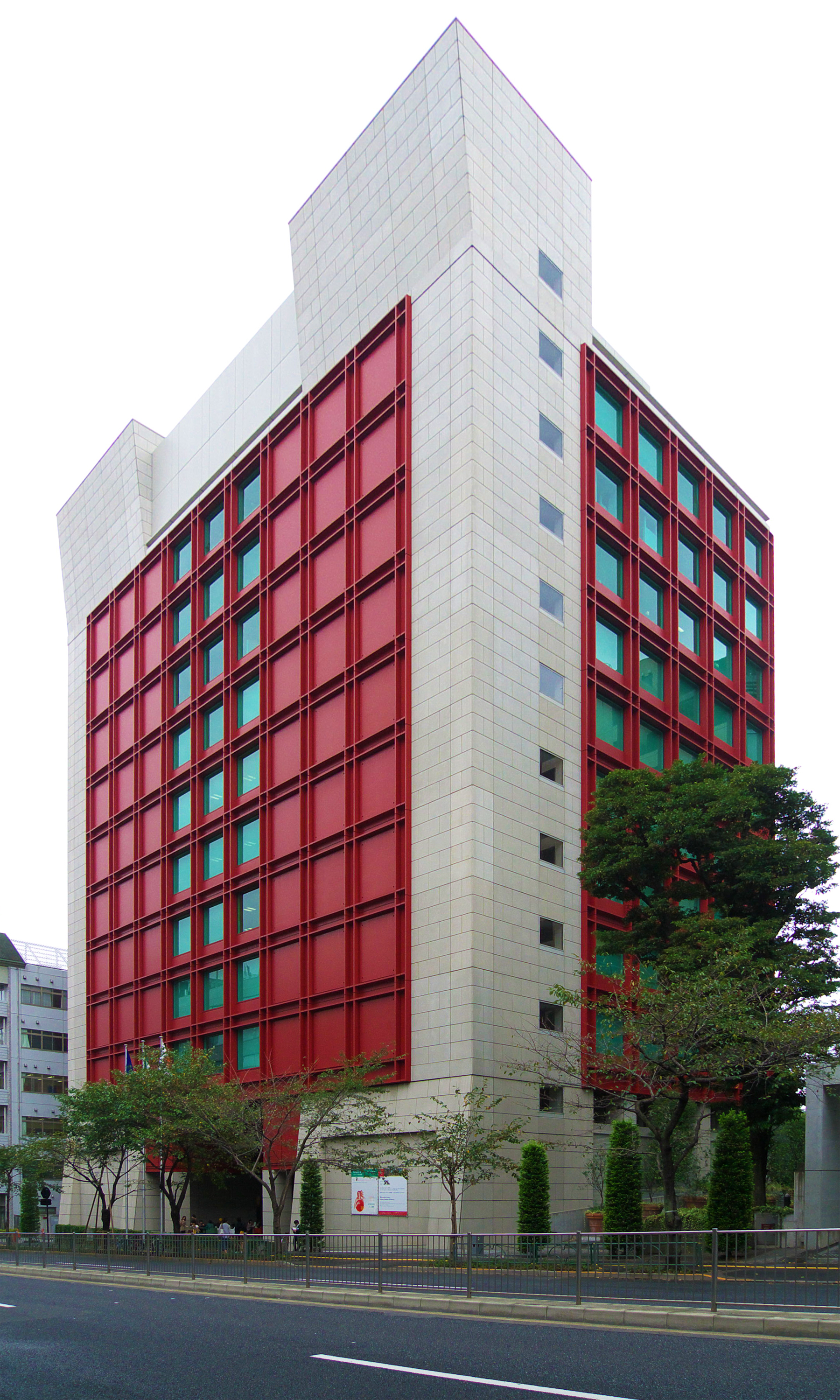 The Italian Cultural Institute in Chiyoda Ward, Tokyo, Japan